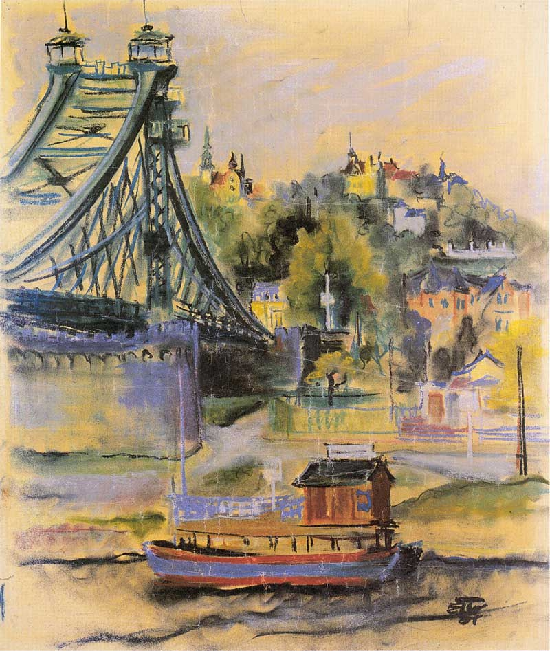 Loschwitzer Bruecke